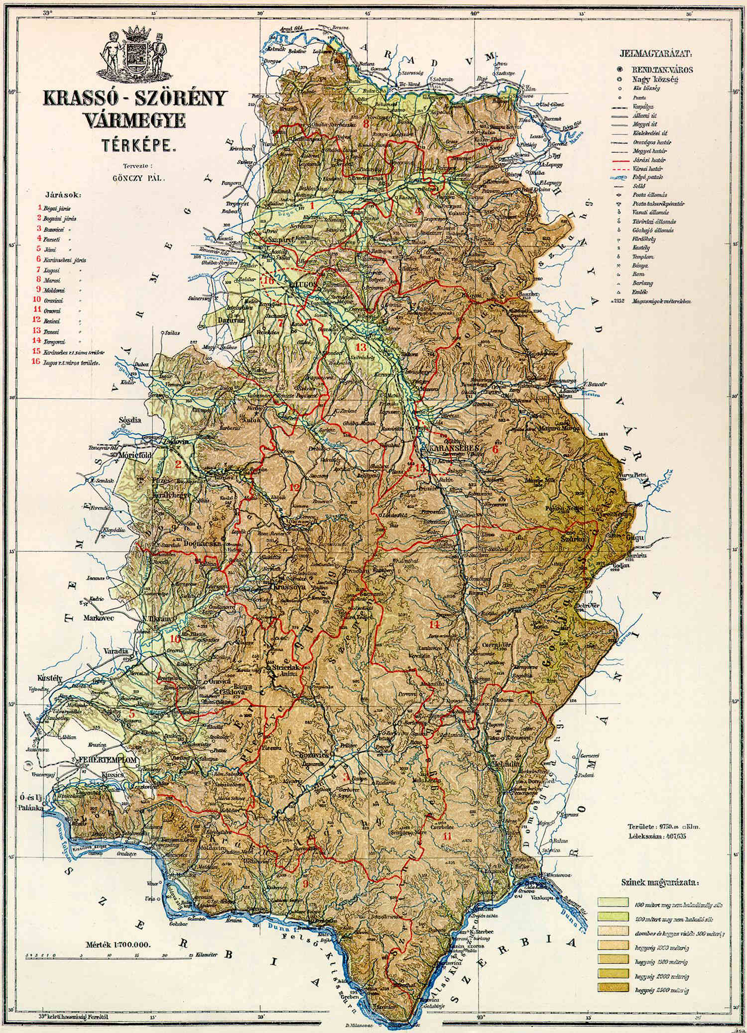 County of Krassó-Szörény in the pre-Trianon Kingdom of Hungary. Komitat Krassó-Szörény w Królestwie Węgier przed traktatem w Trianon.